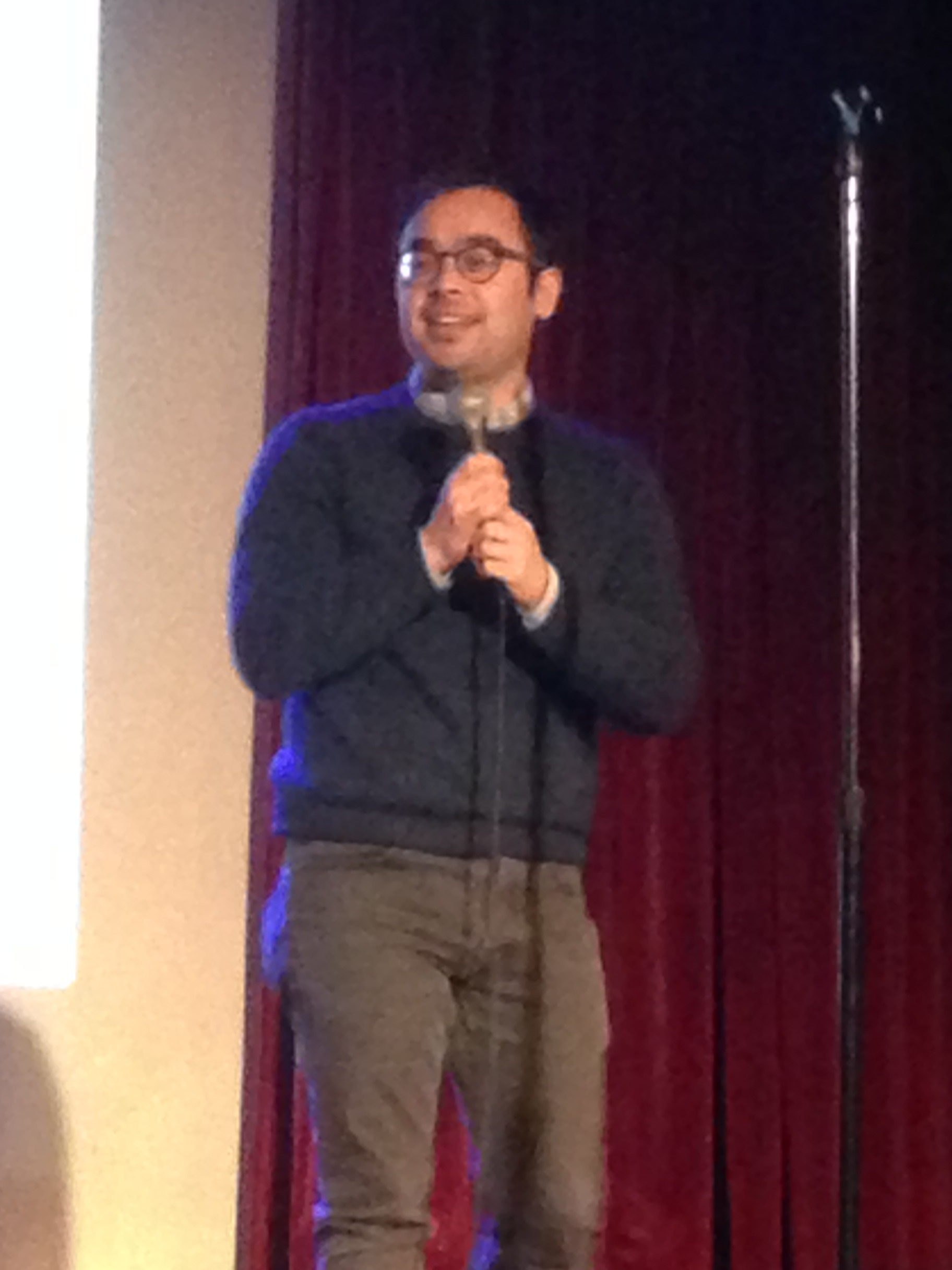 Adrian Chen presents the IRL Club in Brooklyn, New York.